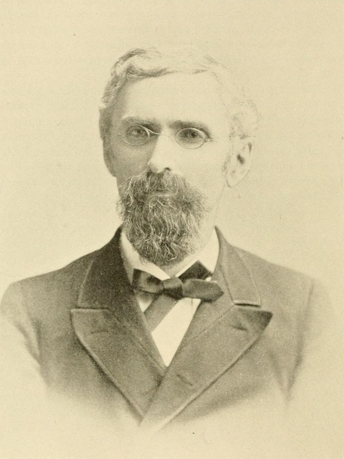 Orren Cheney Moore (New Hampshire Congressman)